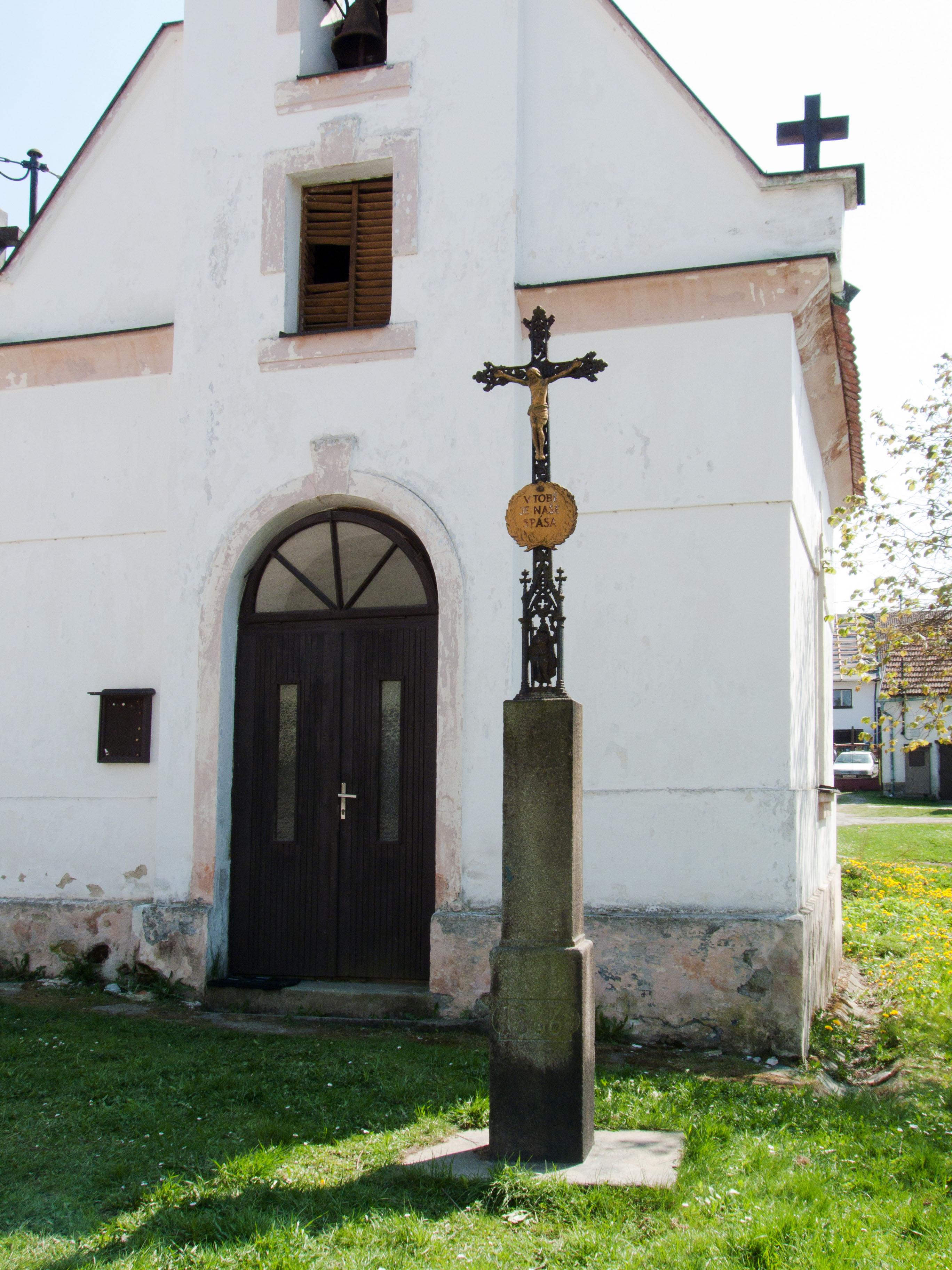 Cross at the chapel in the village of Kapsova Lhota, Strakonice District, Czech Republic.